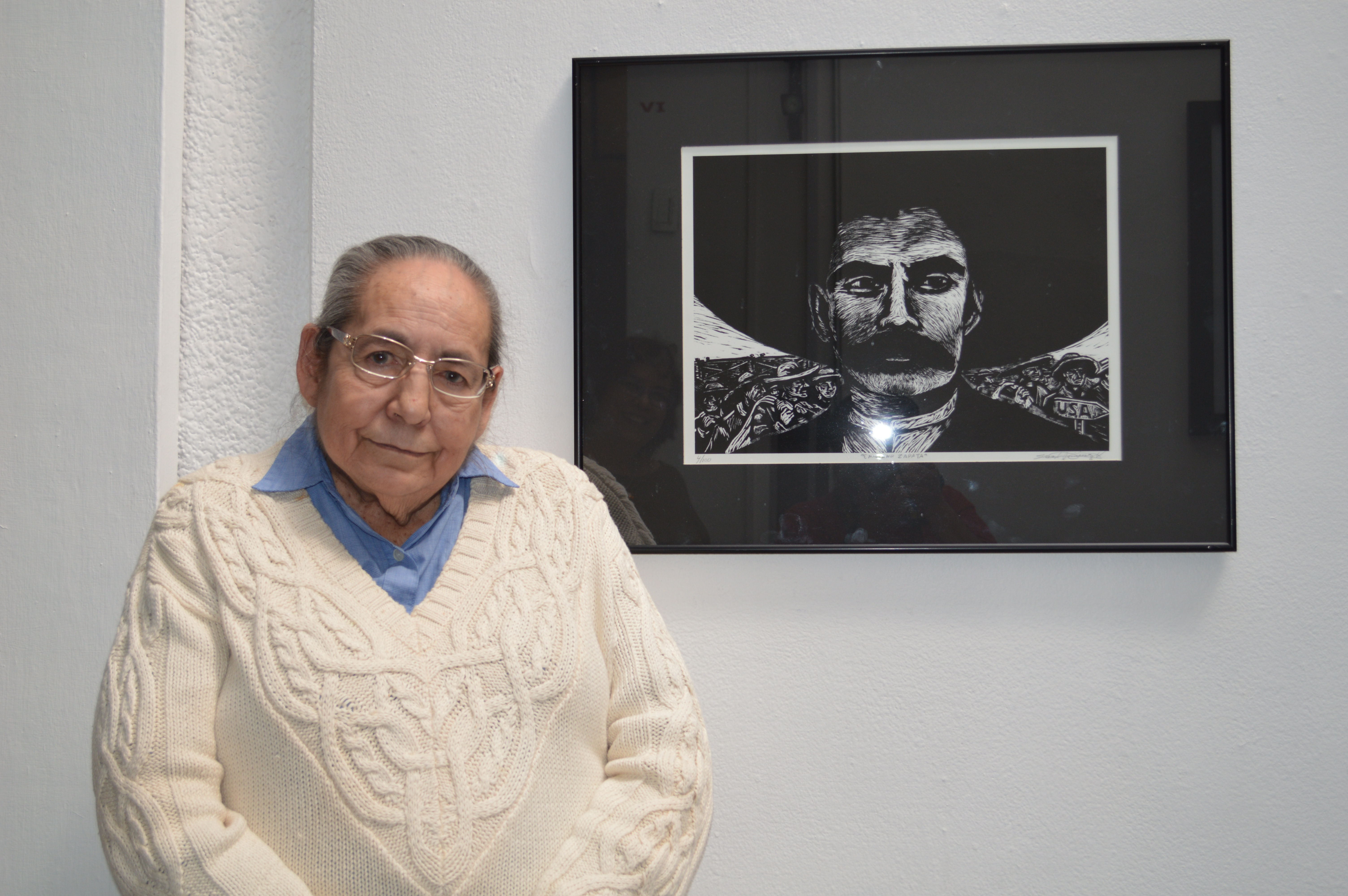 Photographic study of graphic artist Sarah Jimenez by uploader at the Salón de la Plástica Mexicana in Mexico City